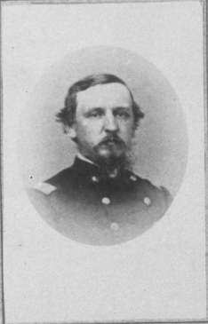 War time image of J.B. Leake